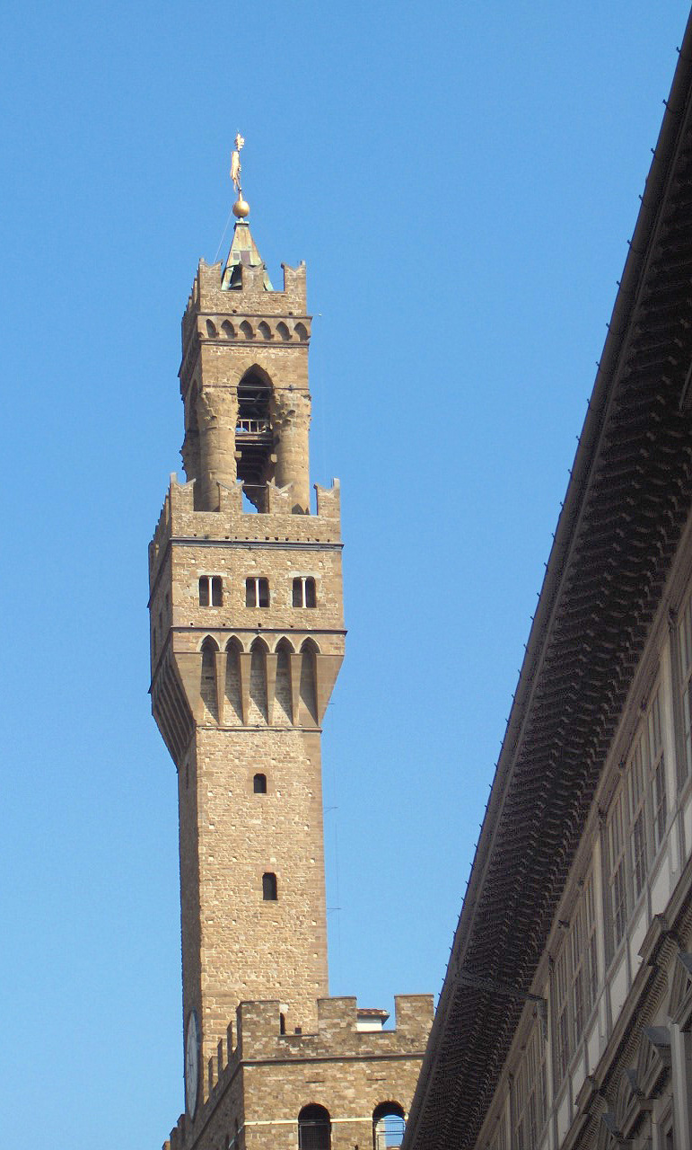 View at the Palazzo Vecchio from the Uffizi, Italy Own photo - photo made by Georges Jansoone on 13 October 2005